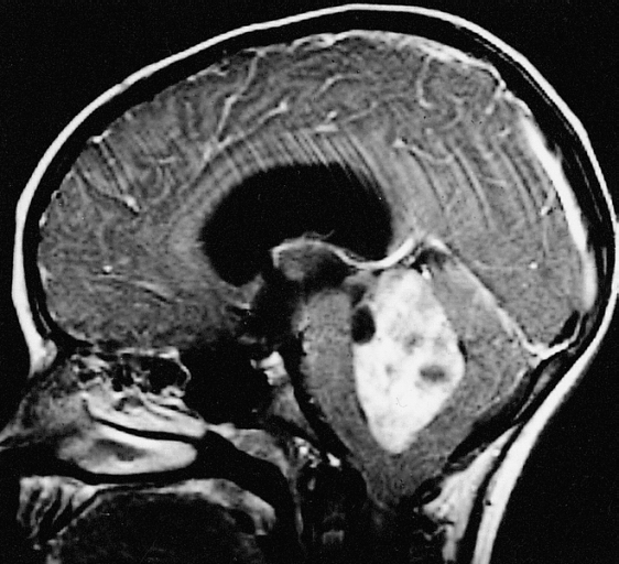 Ependymomas such as this fourth ventricle tumor are discrete and contrast enhancing. (Courtesy of Dr. Frederick B. Askin, Baltimore, MD.)